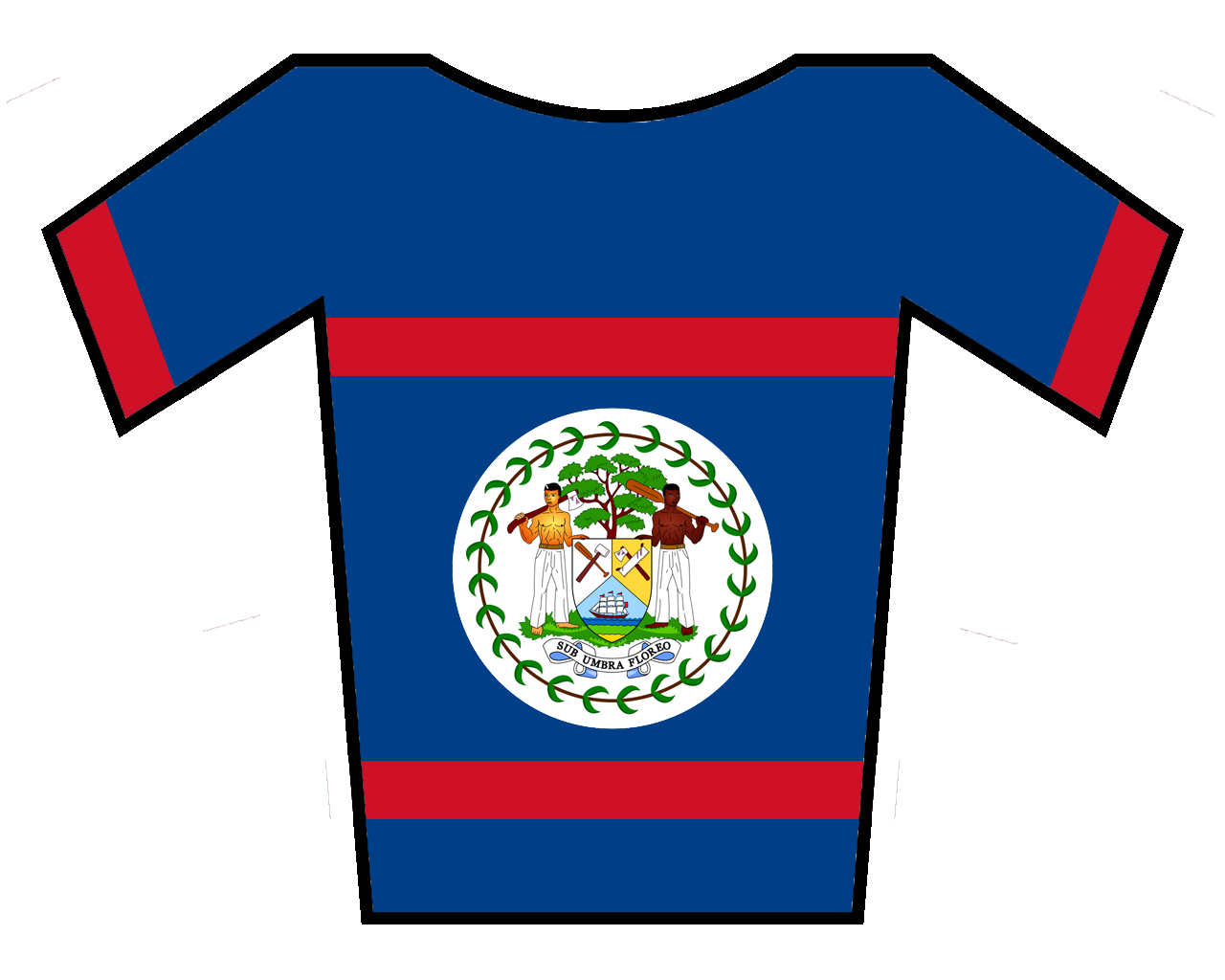 National champion cycling jersey of Belize